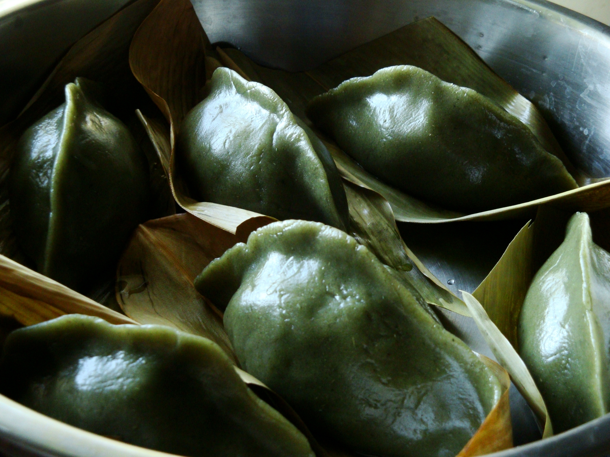 Tsukakkue or caozai guo, Steamed glutinous flour dumpling with herbal wrapper 鼠麴粿 或 草仔粿